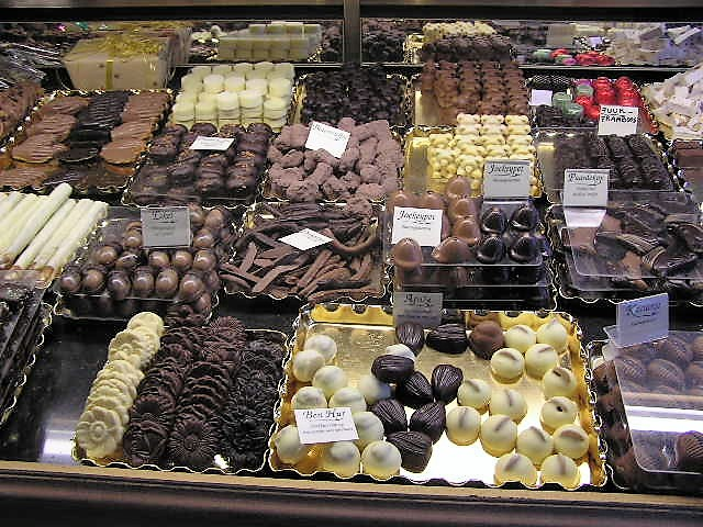 Chocolate shop in Antwerpen, Belgium.